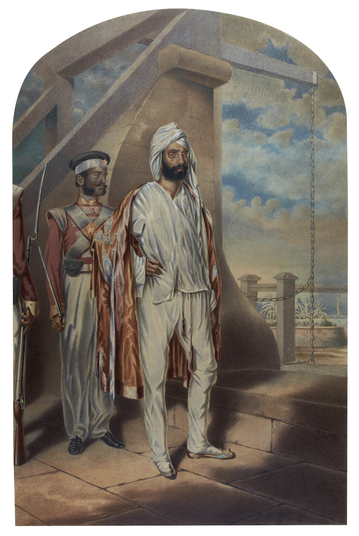 PORTRAIT OF DIWAN MULRAJ (D. 1849) IN CAPTIVITY AT CALCUTTA